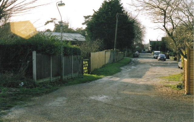 Parsonage Road, Eddington and its history. Description from Geograph: This is looking east along the road which is still little more than the farm track it was a century ago when the land around was part of Parsonage Farm. That was before Herne Bay was built and when the farm consisted of a patchwork of fields between the old Herne village TR1865 and the sea shore. Back then, the great Parsonage Farmhouse and its buildings stood immediately to the right of the picture beside this road/track which leads, as it still does today, to one of the farm's surviving fields.